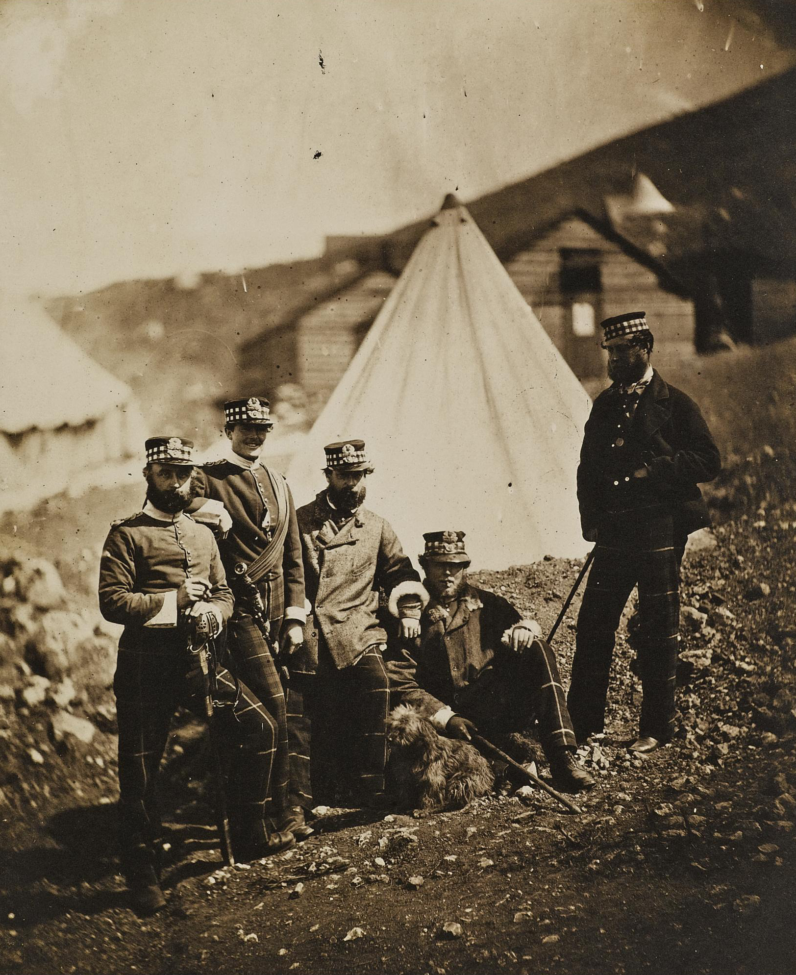 Officers of the 71st Highlanders, salt print, 20.3 x 17.2 cm (8 x 6¾ in)